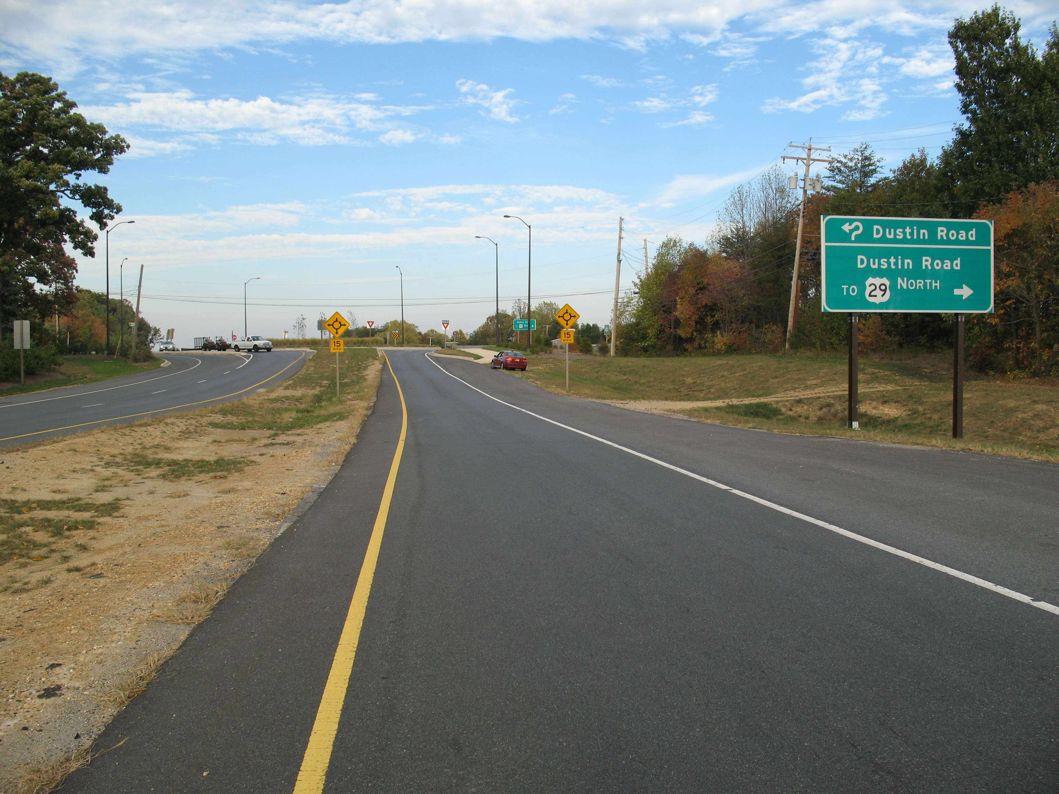 US 29A (Old Columbia Pike) at Dustin Road, Burtonsville, MD, USA